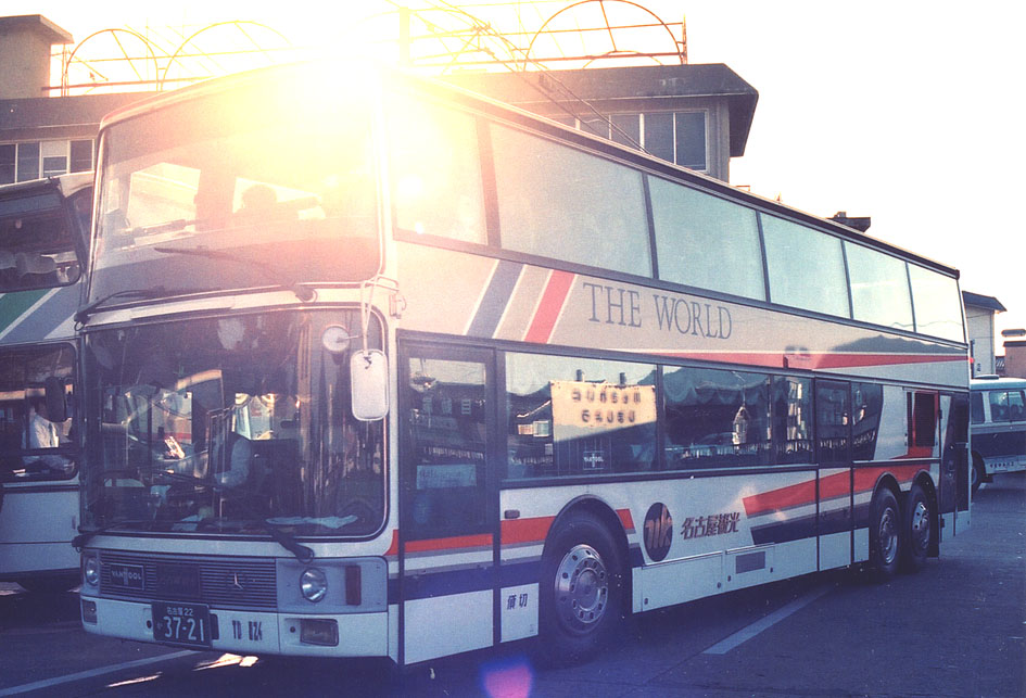 Van Hool TD824 Astromega coach in Japan. Nagoya Kanko Nikkyu operator.